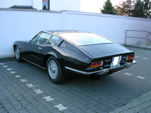 Maserati Ghibli, build between 1966 and 1973